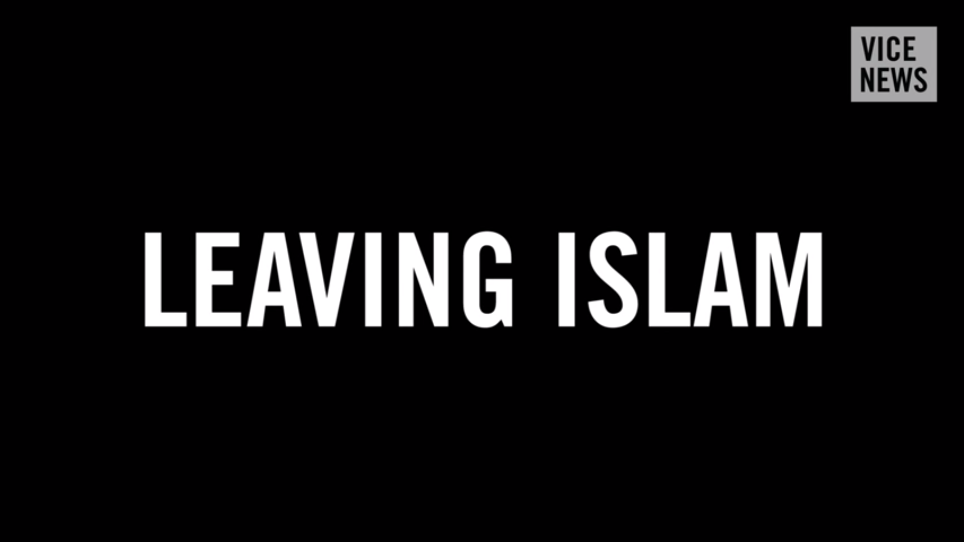 Titlecard of Rescuing Ex-Muslims: Leaving Islam (2016). VICE News has gained access to an underground network in London, Faith to Faithless (represented by co-founder Imtiaz Shams), who help rescue ex-Muslims. First, a few Muslim apostates living in the UK under difficult circumstances are interviewed. They next followed the network as it helped the young atheist Rana Ahmad escape Saudi Arabia via Turkey, and provides support and shelter for young British people on the run from their families and communities.